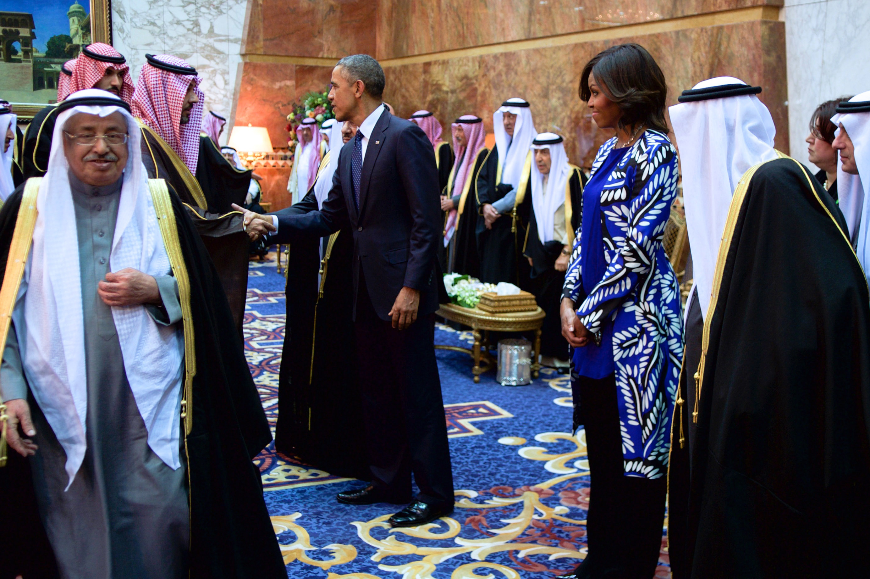 President Obama and First Lady Michelle Obama, joined by the new King Salman of Saudi Arabia, shake hands with members of the Saudi Royal Family at the Erqa Royal Palace in Riyadh, Saudi Arabia, on January 27, 2015, as they, U.S. Secretary of State John Kerry and other dignitaries extended condolences to the late King Abdullah and call upon and met with King Salman. [State Department photo/ Public Domain]